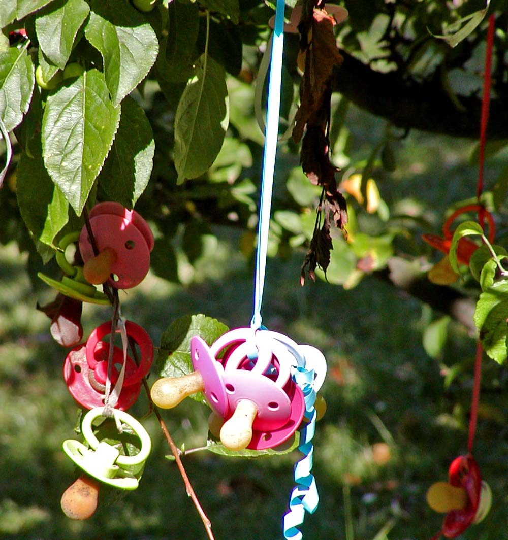 Photo of tree with hanging baby pacifiers in Aarhus Denmark